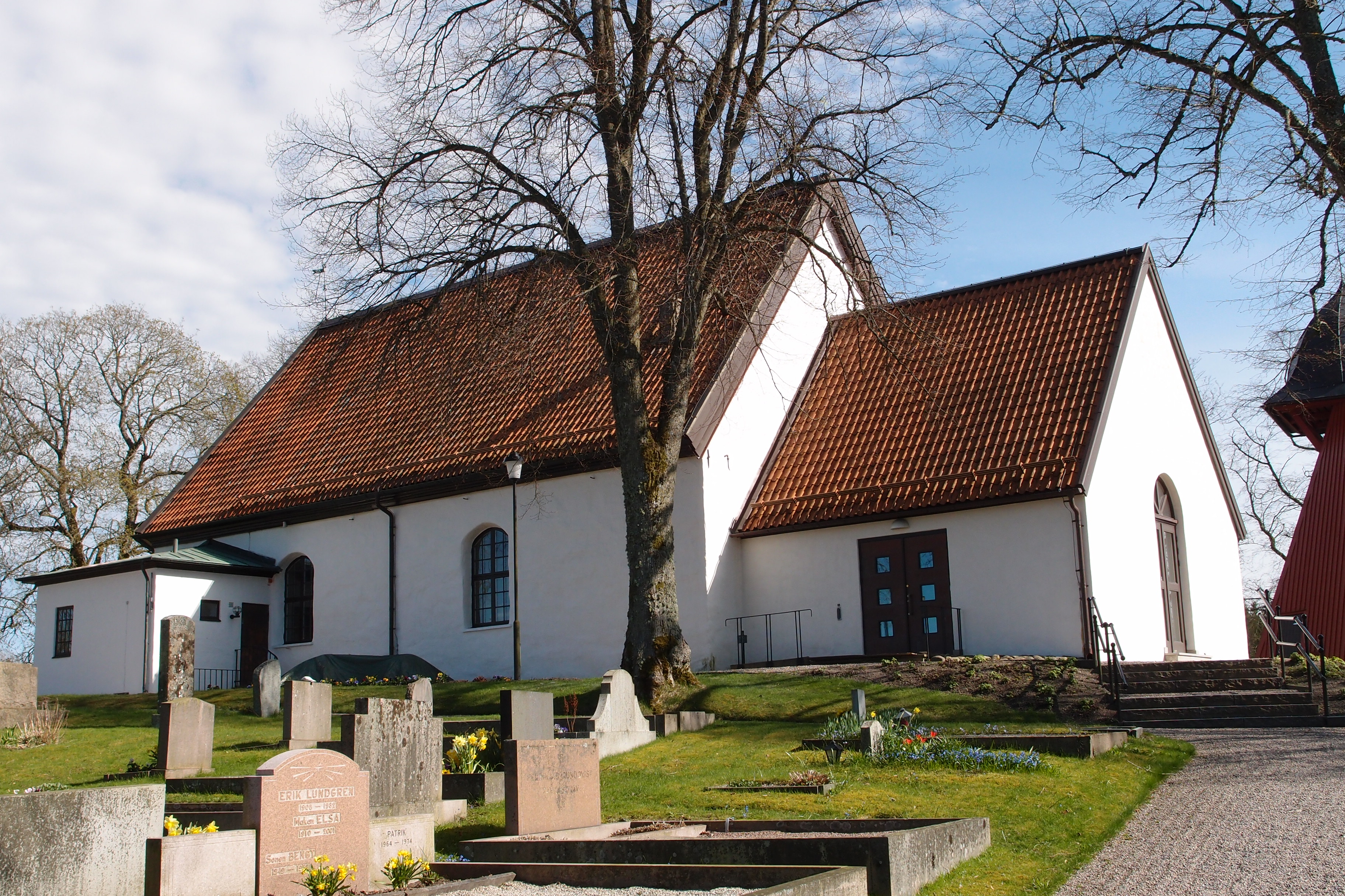 Stora Lundby Church (Lundby Prästgård 1:1)